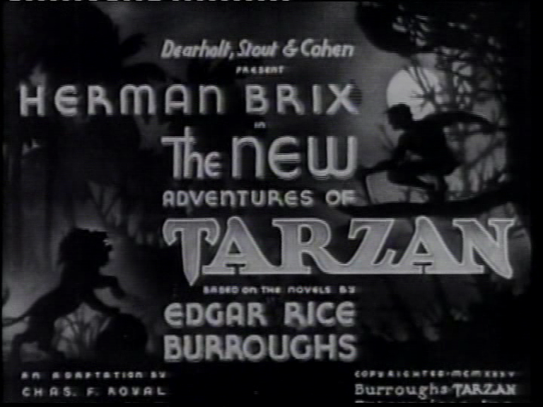 Title screen from the American serial The New Adventures of Tarzan